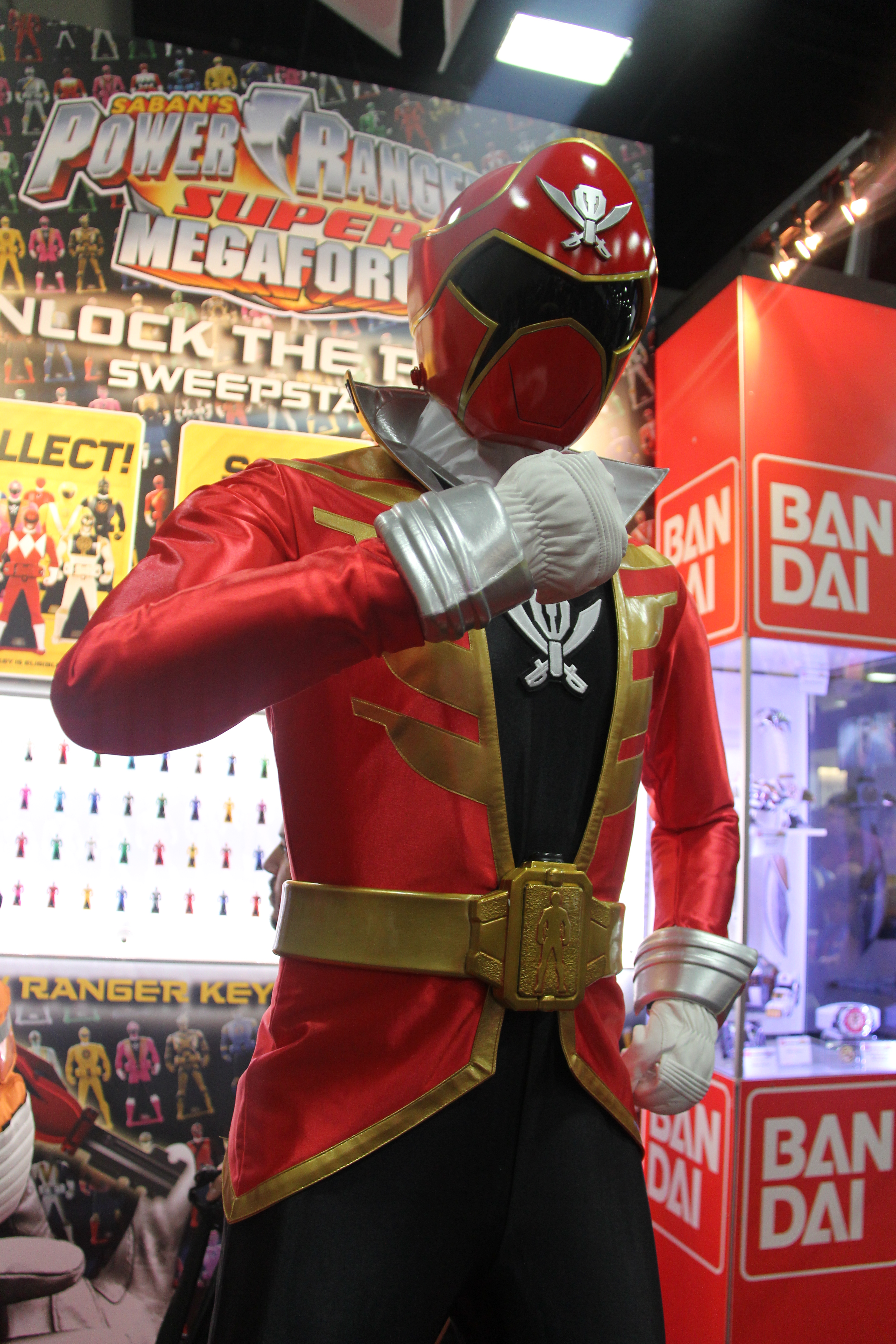 IMG_0447 Cosplay at San Diego Comic-Con (SDCC 2014).